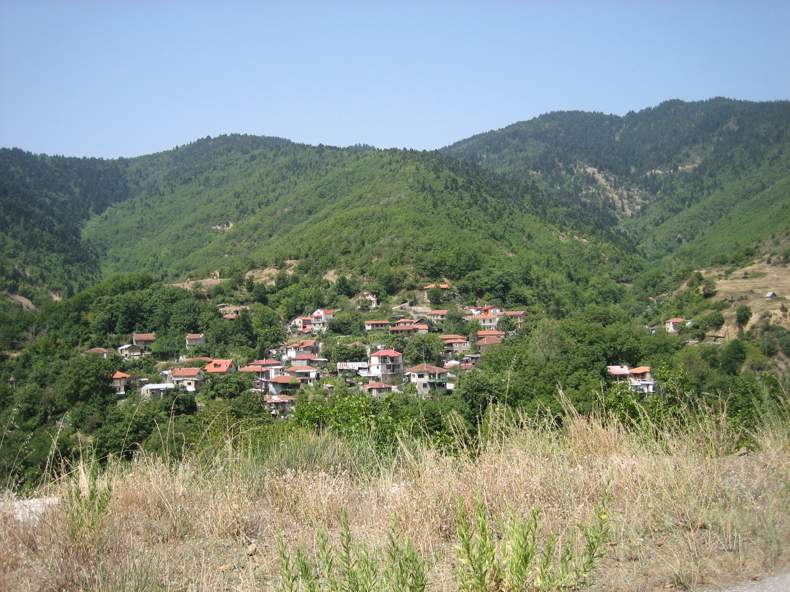 Panoramic view of Pitsiota. In the background you can see the peak Bakakas of the cordillera Lykomnimata (=Wolftombs)